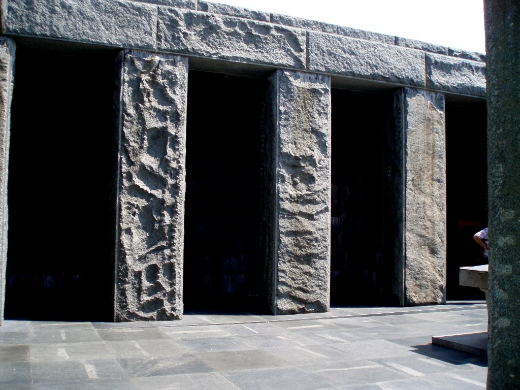 ગુજરાતી: Mausoleum on the Lovcen